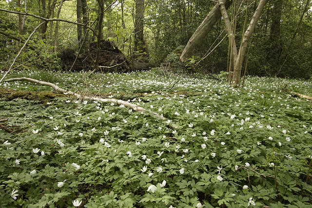 Spring In Grace Dieu Wood A carpet of Wood Anemone's in this beautiful section of wet woodland.